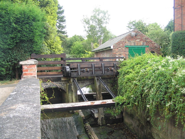 Footpath over old sluice gate, Asfordby